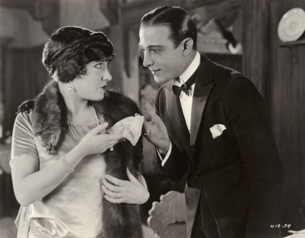 Theodora Fitzgerald (played by Gloria Swanson) looks into the eyes of Lord Hector Bracondale (Rudolph Valentino) who returns her handkerchief in a scene still from the 1922 silent drama Beyond the Rocks.